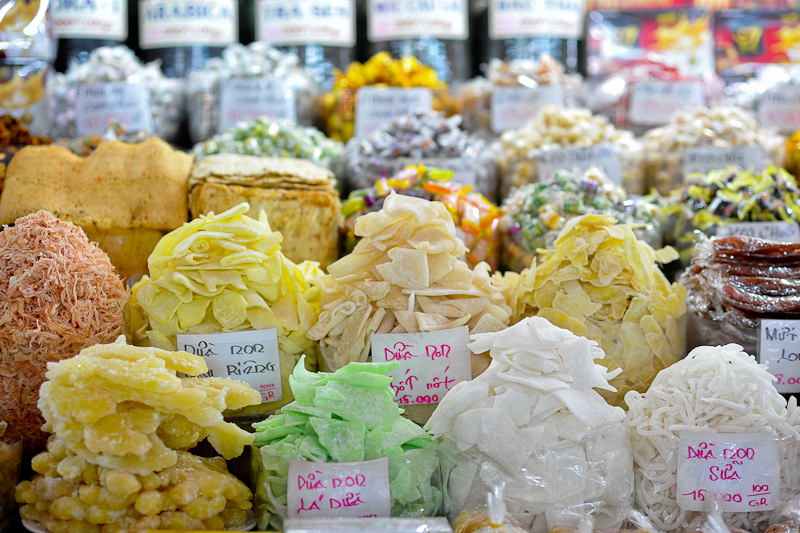 Candied coconut types sold in Ho Chi Minh City